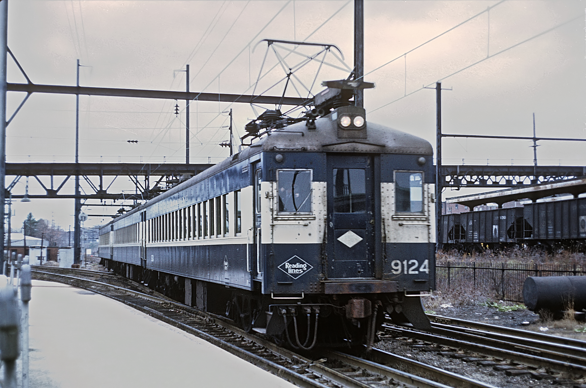 A Reading Company Blueliner arrives at Norristown in 1968.